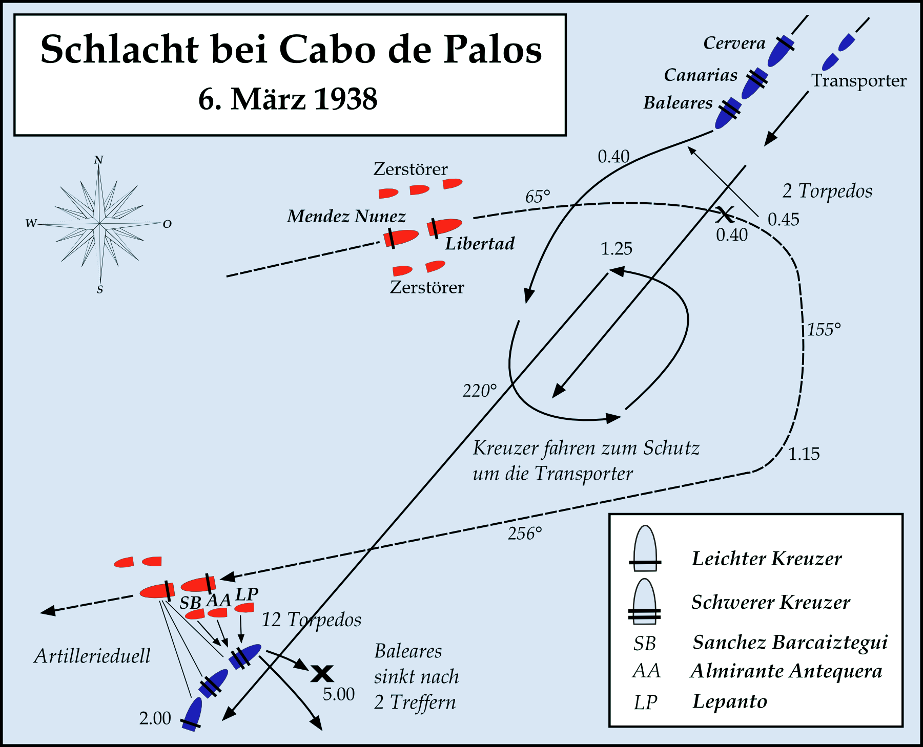 Battle of Cape Palos, March 6th 1938